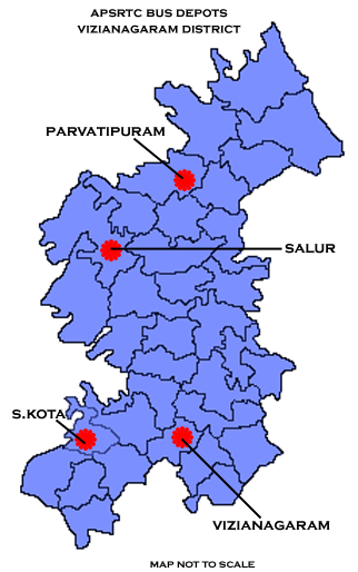 Vizianagaram district APSRTC Depot map